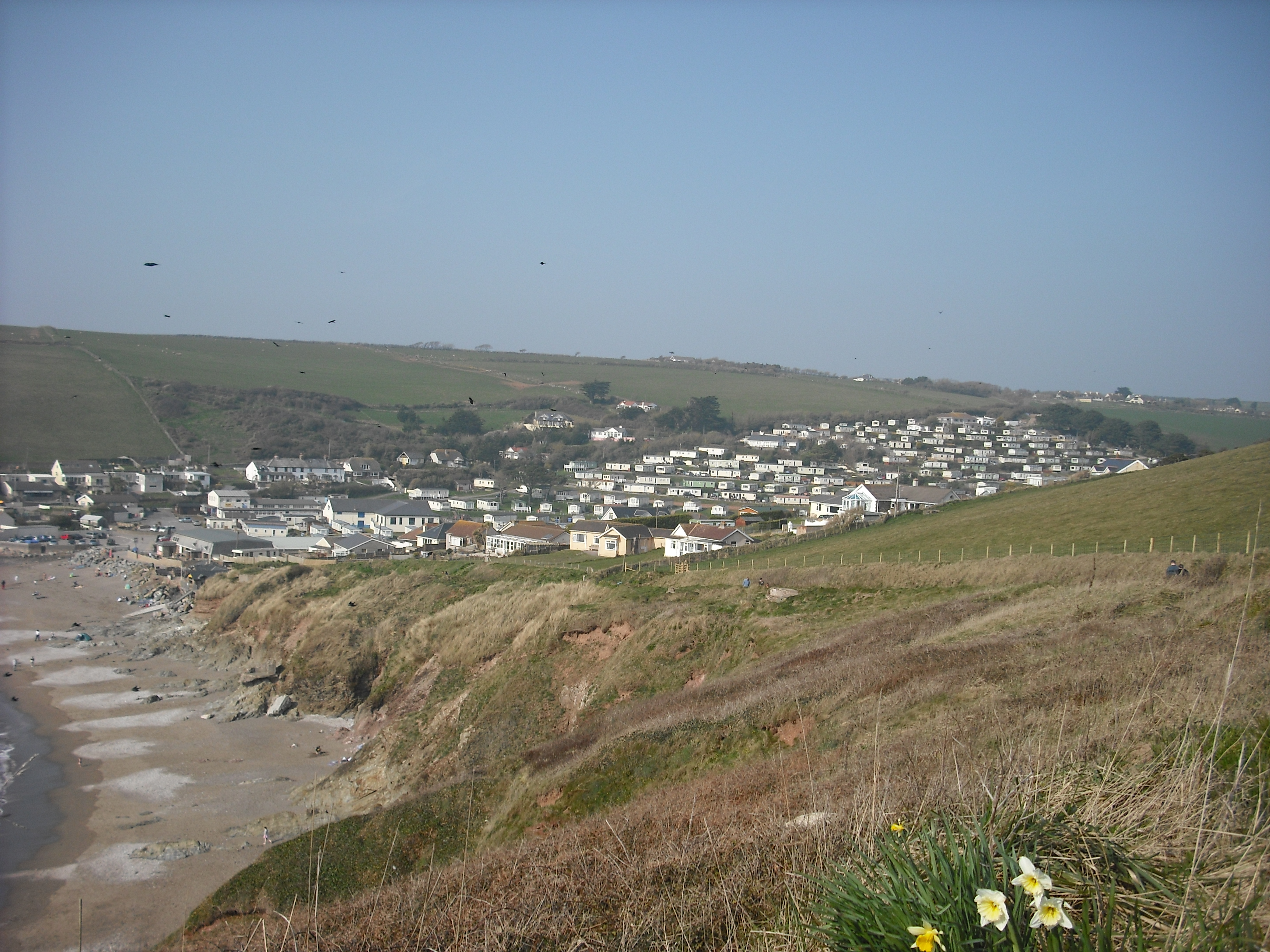 A photograph of Challaborough, Devon, England during a beautiful spring day.